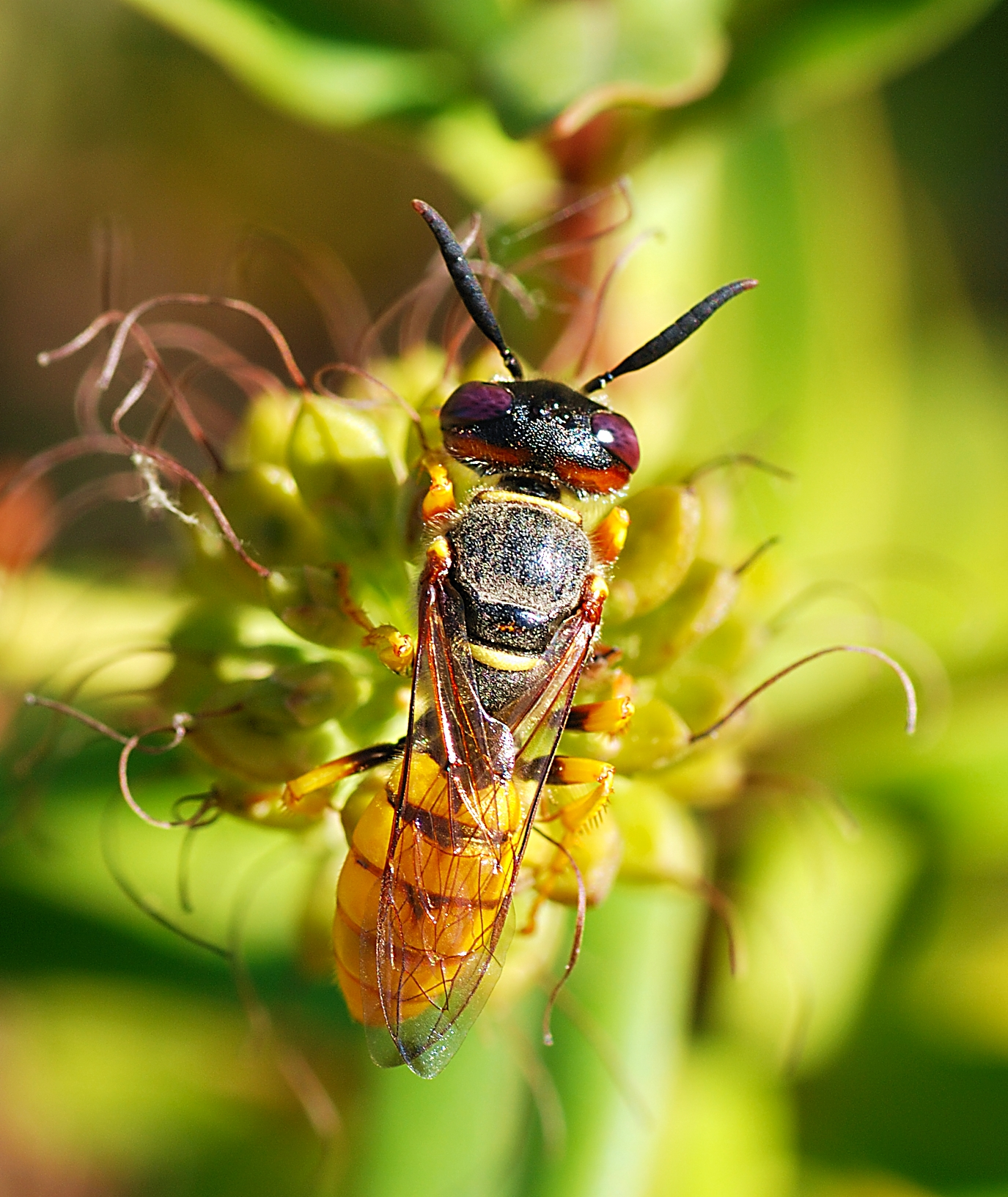 Beewolf wasp (Philanthus triangulum)